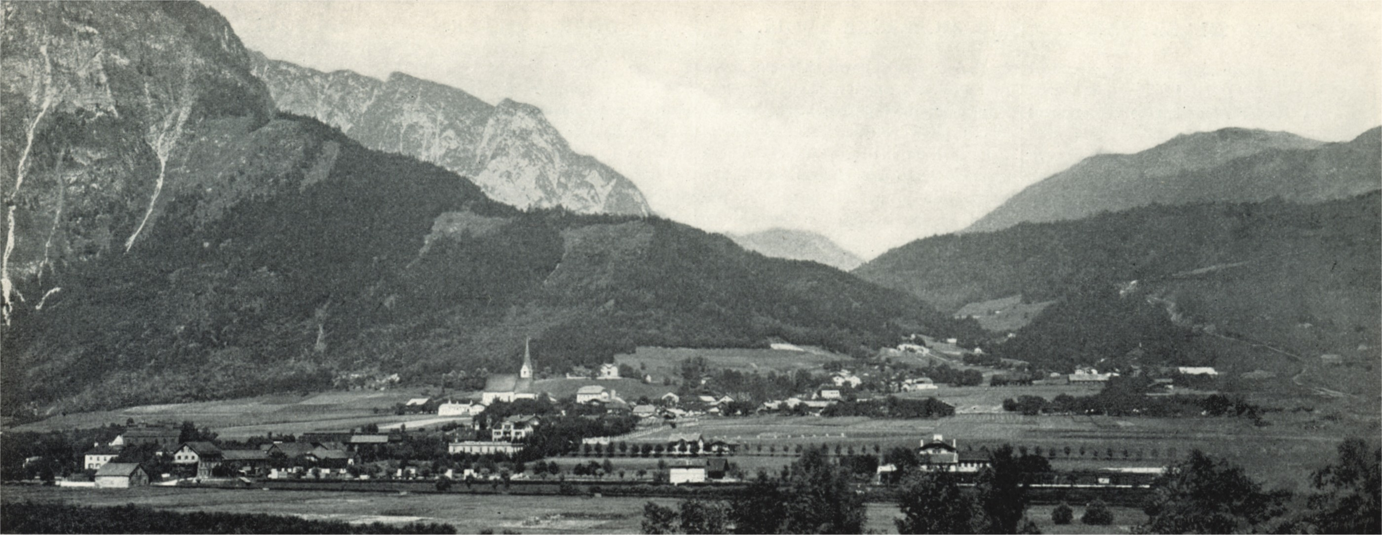 The austrian village of Jenbach around 1898